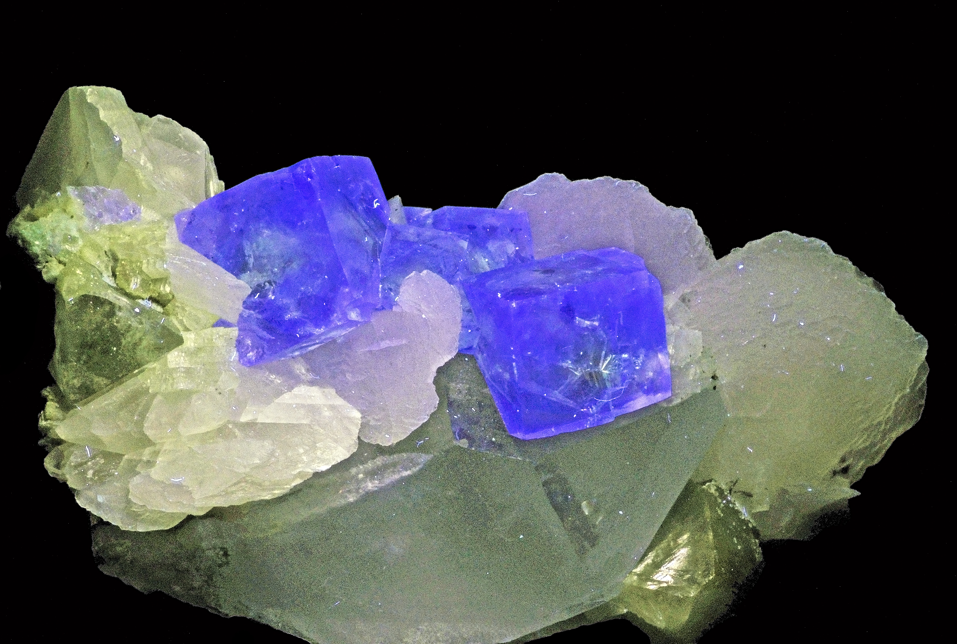 fluorine, calcite, scheelite, quartz with UV light : Yaogangxian mine, Yaogangxian W-Sn Fields, Yizhang Co., Chenzhou Prefecture, Hunan Province, China